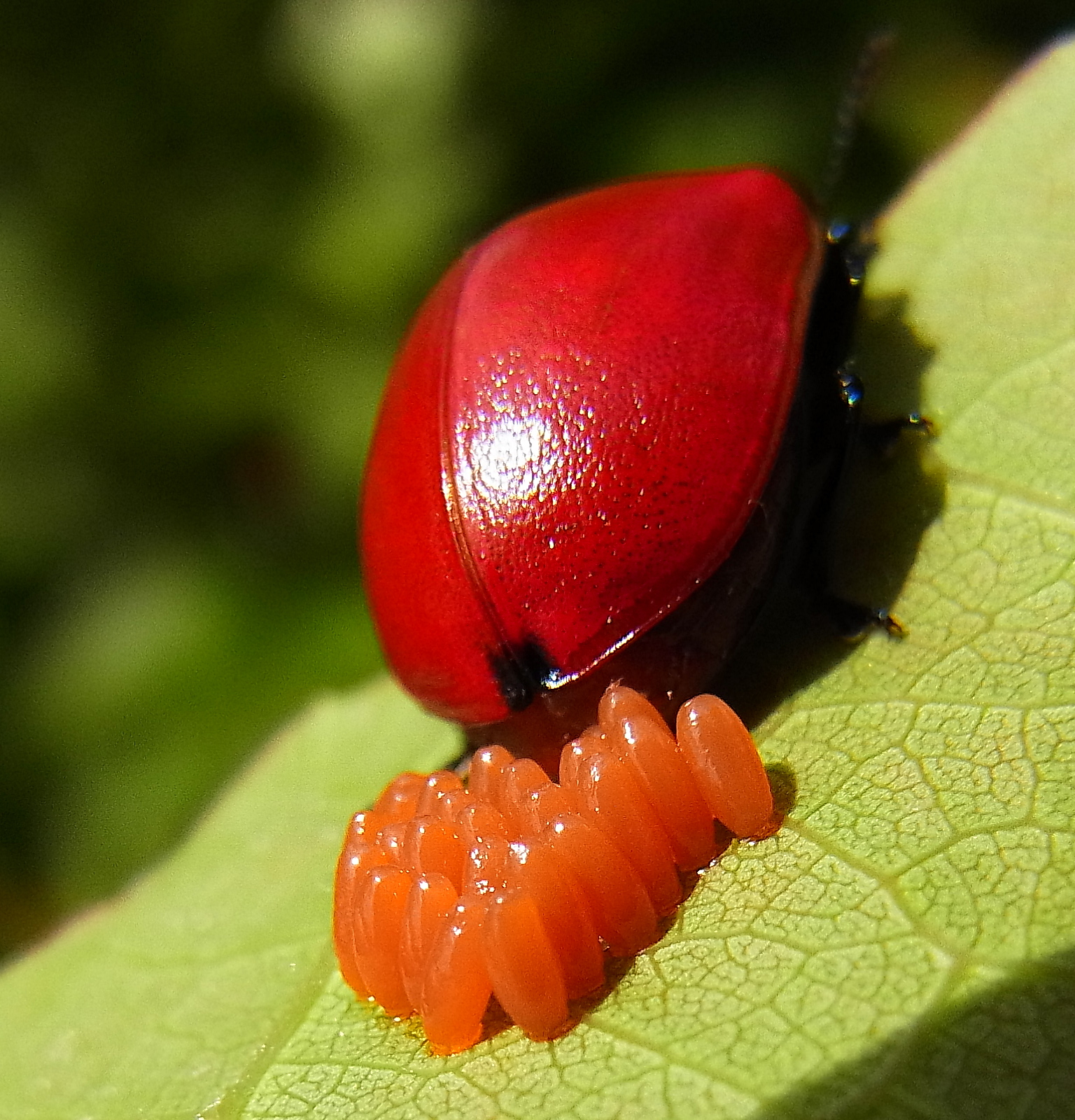 eggs of Chrysomela populi at Hungary at 2012-06-30